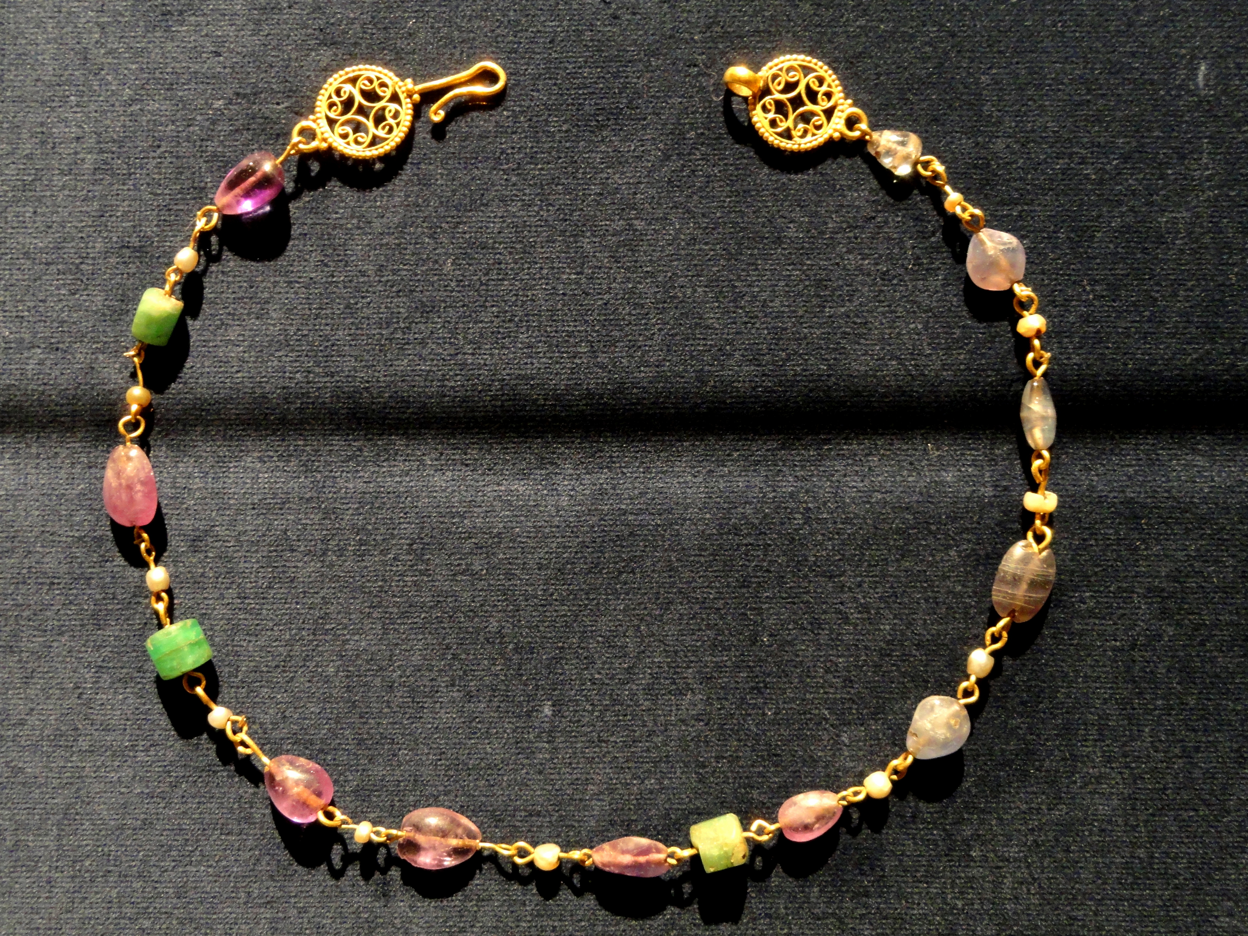 Exhibit in the Cleveland Museum of Art, Cleveland, Ohio, USA. This artwork is old enough so that it is in the public domain.